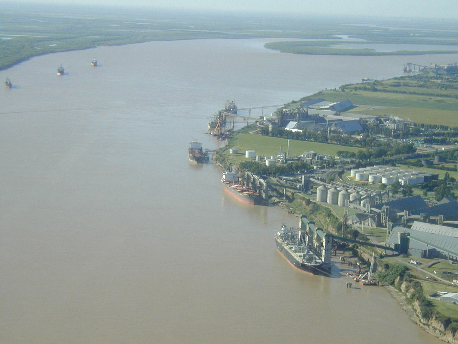 aerial view of San Lorenzo (Parana River) grain terminals (north part) Santa Fe Argentina.